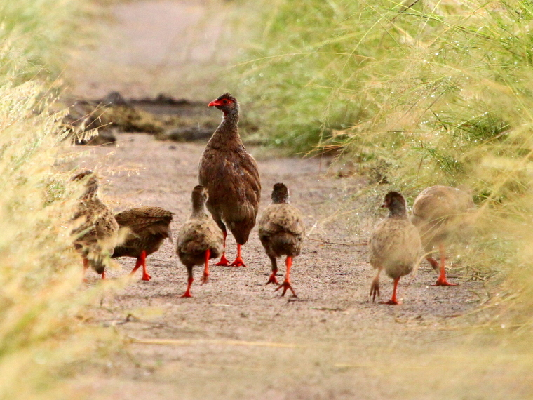 Handsome Francolin (Pternistis nobilis) at Ishasha, Uganda